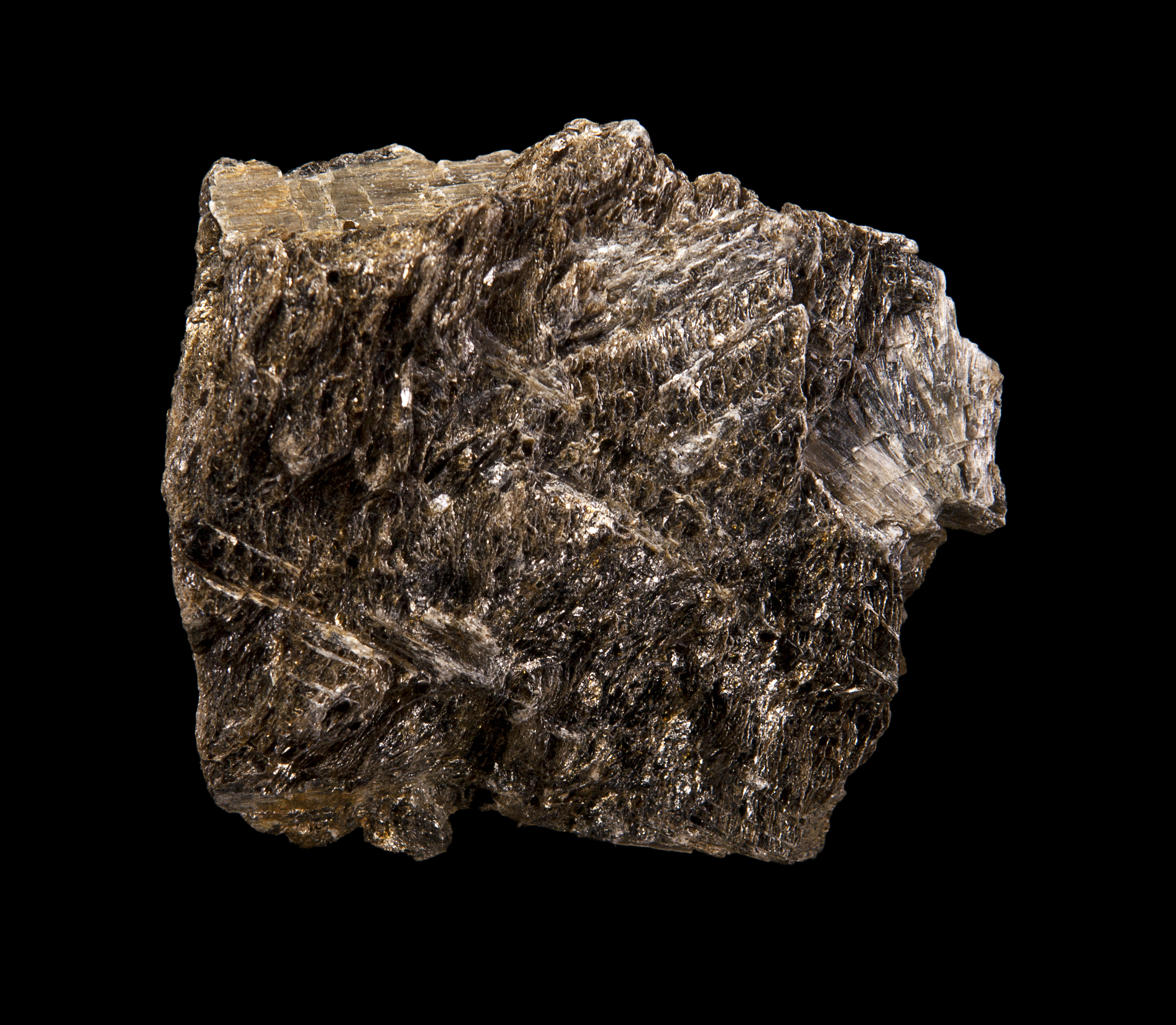 Anthophyllite - Kopparberg, Ljusnarsberg, Västmanland, Sweden - Size 47x43x30 mm